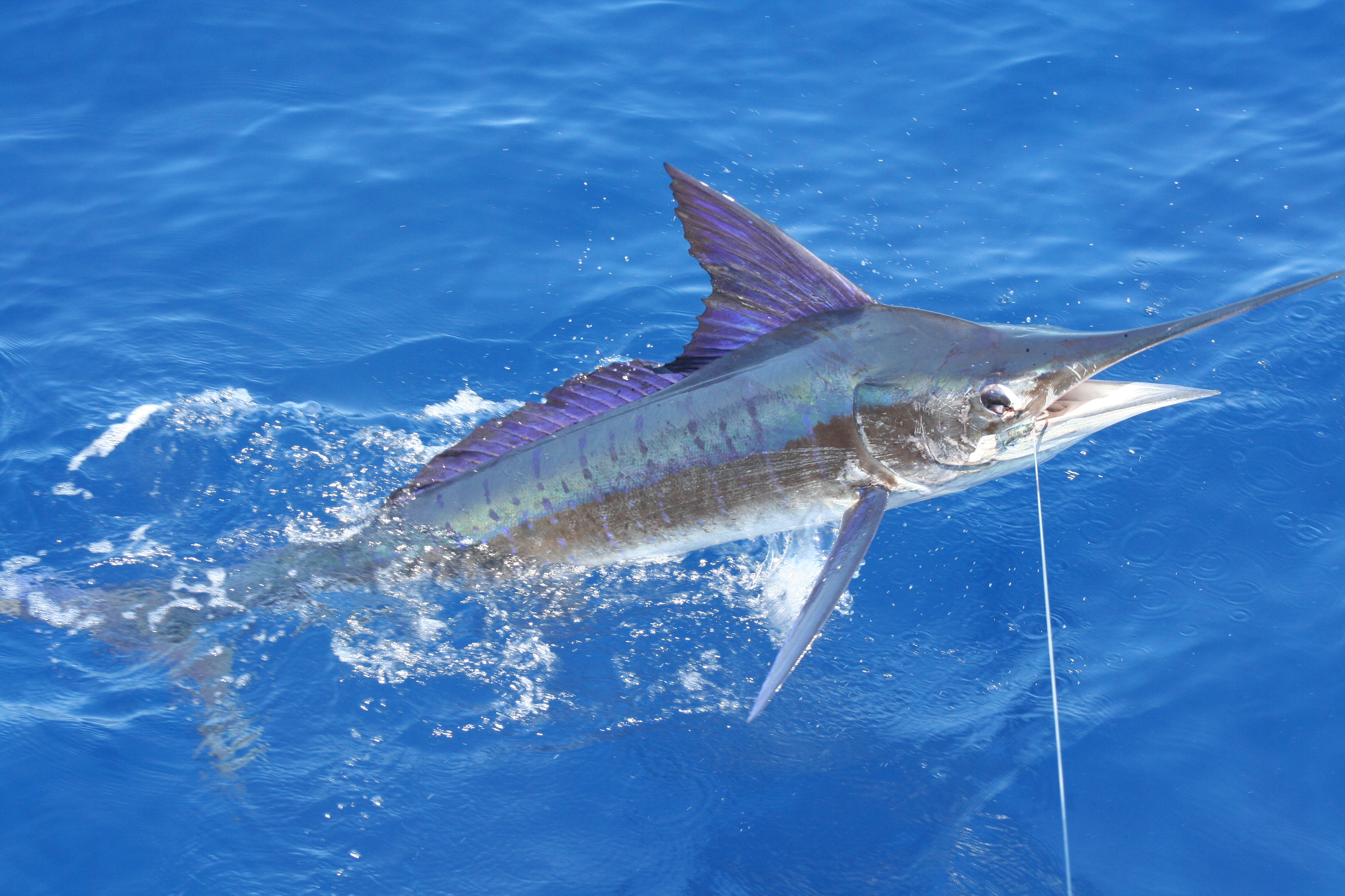 Marlin cerca de la costa de Carrillo